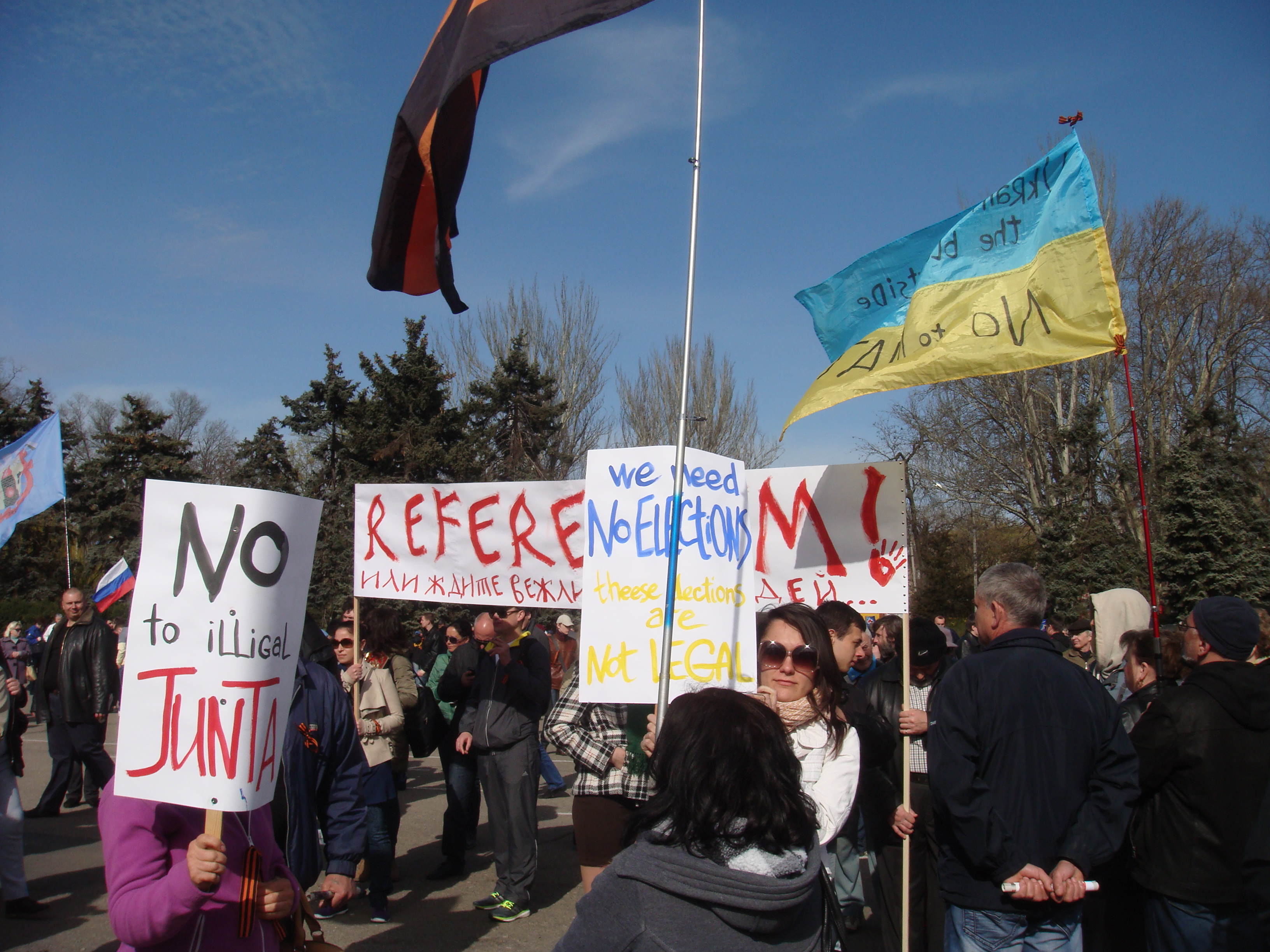 Protesters on the pro-russian meeting in Odessa on 2014-04-06